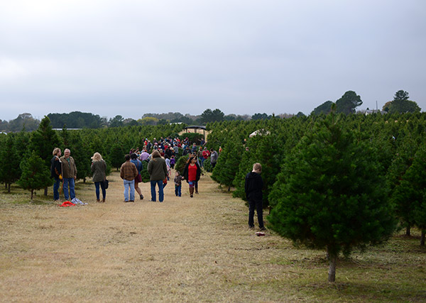 Families searching for a natural tree at a tree farm in Texas